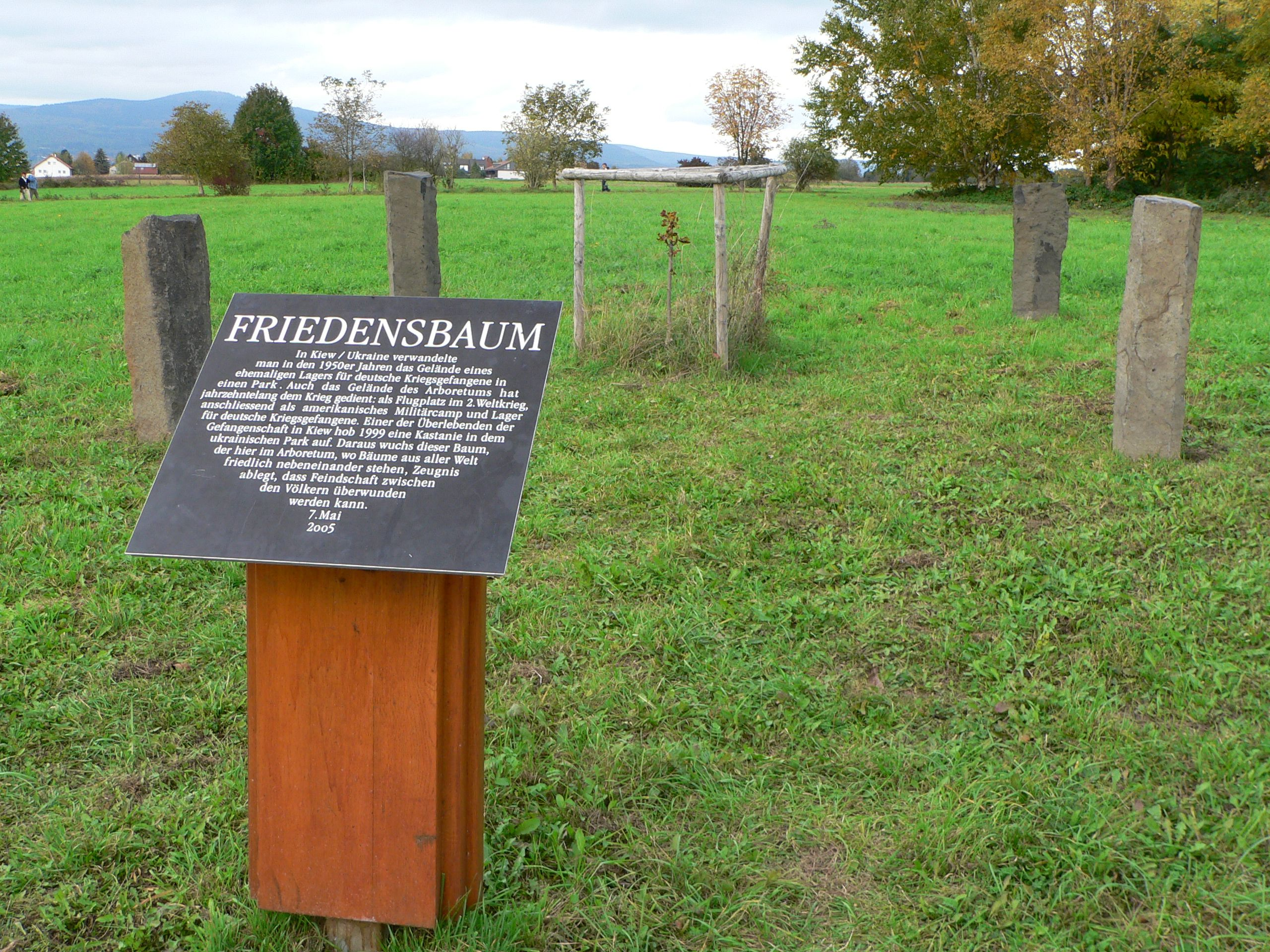 Friedensbaum im Arboretum Main Taunus